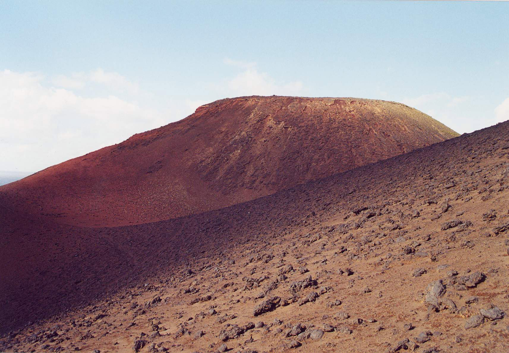 Lava bombs. Capelinhos Vulcano, Faial Island, Azores.